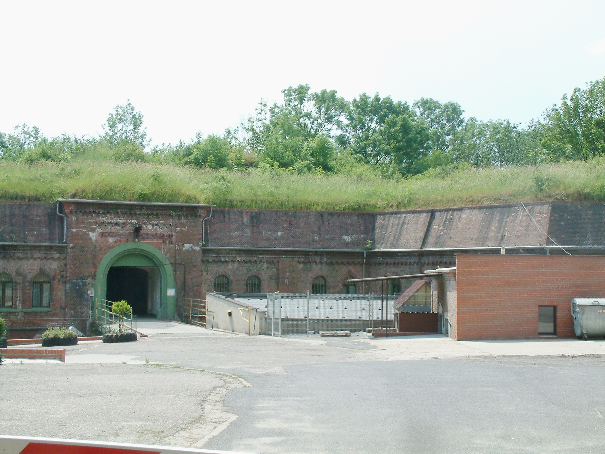 Fort I of Stronghold Poznań